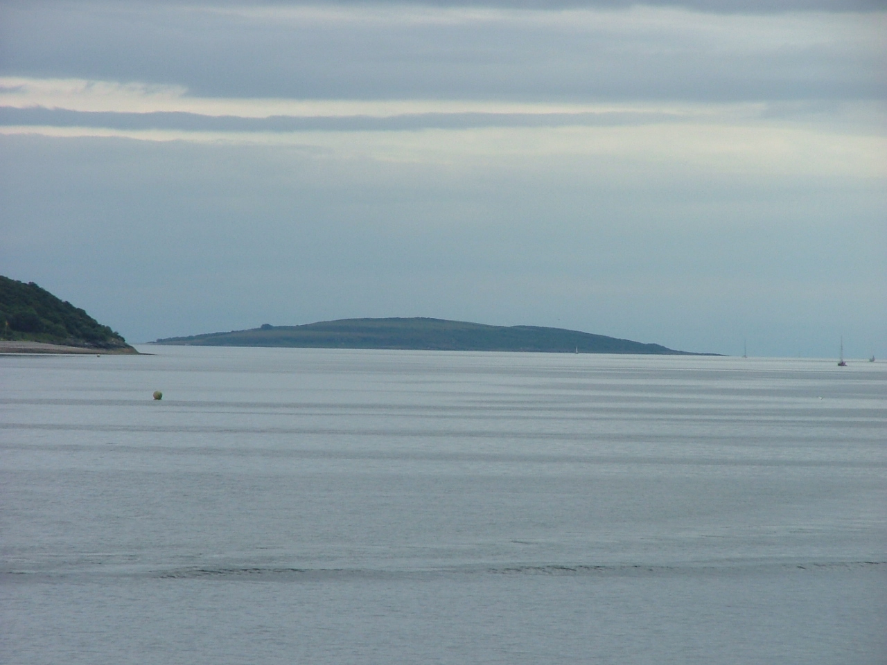 Inchmarnock seen from Tighnabruaich.